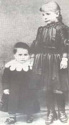 Santa Gemma Galgani a 7 anni con la sorellina Angelina